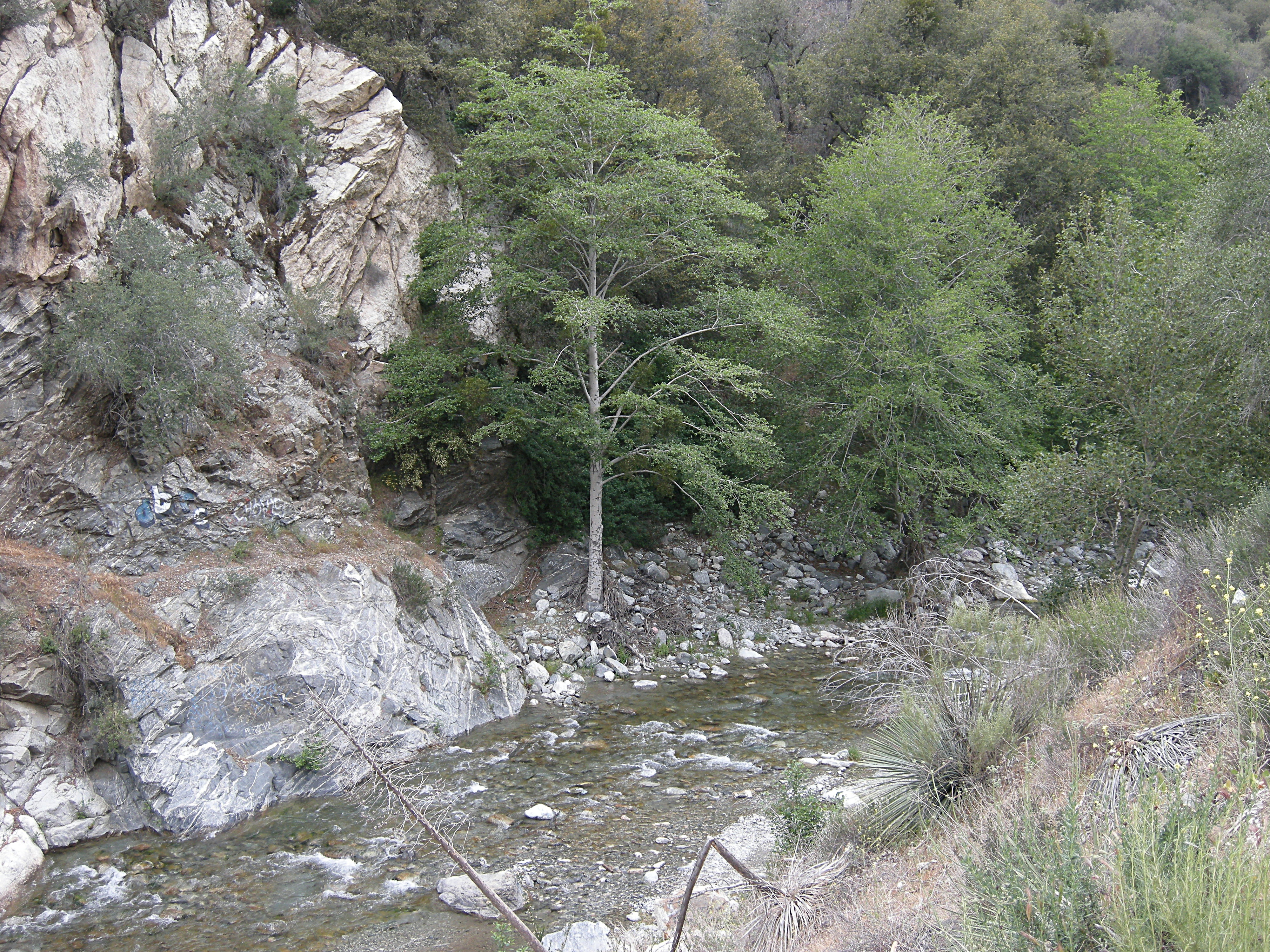 San Garbriel River, East Fork - in the San Gabriel Mountains, Southern California